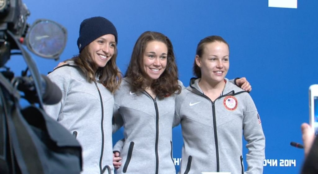 U.S. ski jumpers Jessica Jerome, Sarah Hendrickson and Lindsey Van speak to the media in Sochi, Feb. 10, 2014. (Parke Brewer/VOA)